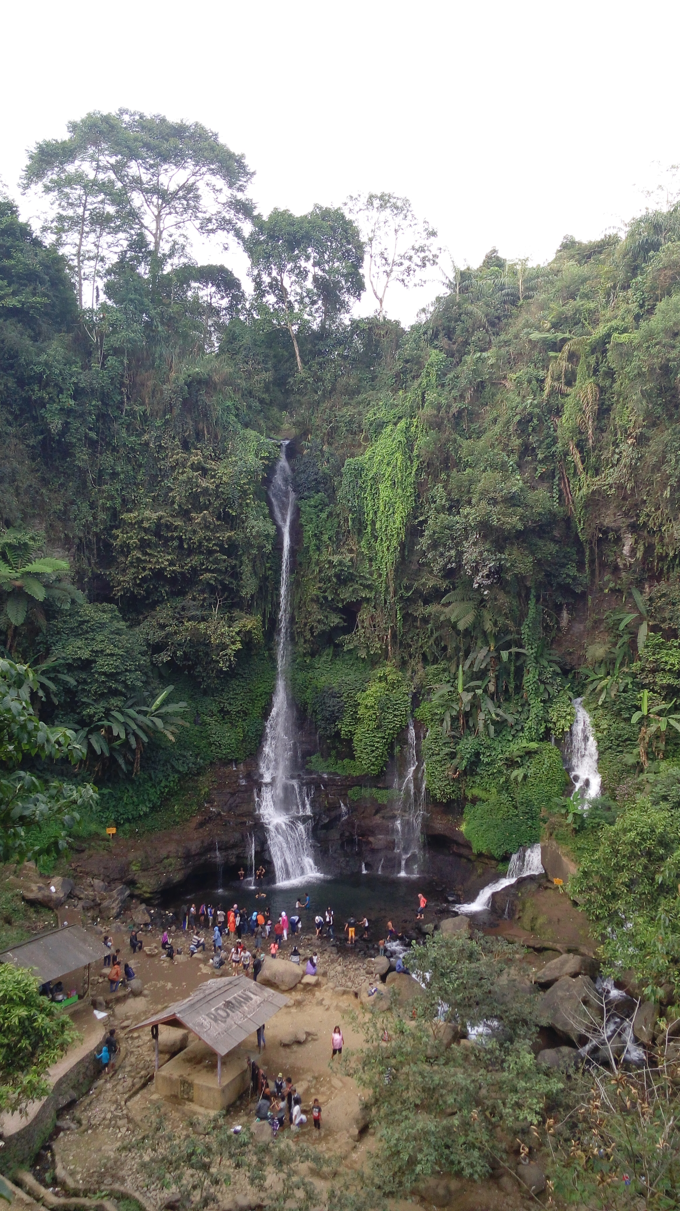 Curug Orok, is located in Desa Cikandang, Cikajang, Garut Regency, Indonesia.